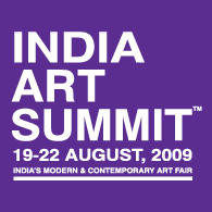 Logo for India art Summit 2009